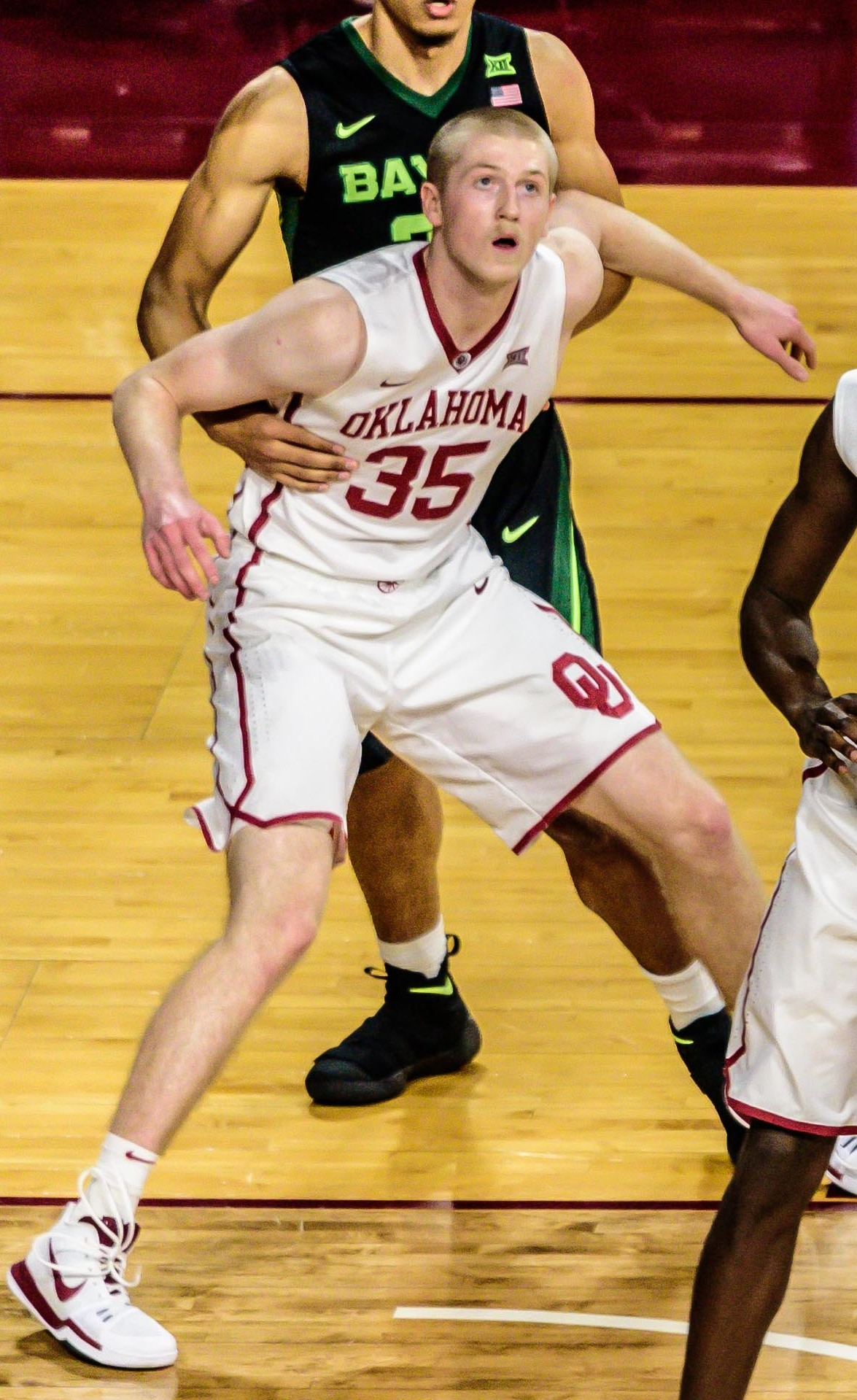 Oklahoma vs. Baylor basketball in January 2018